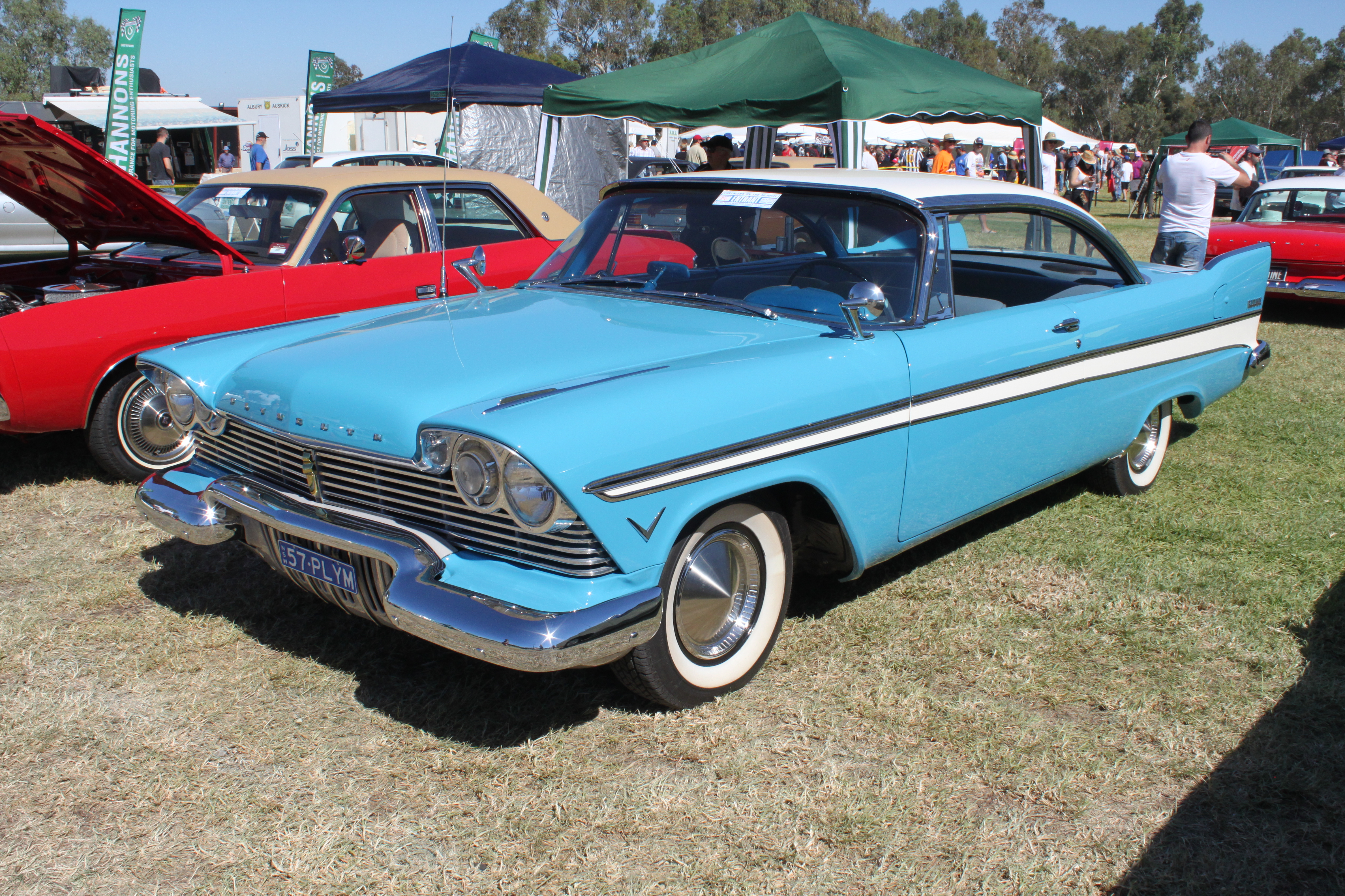 Chryslers on the Murray 2015